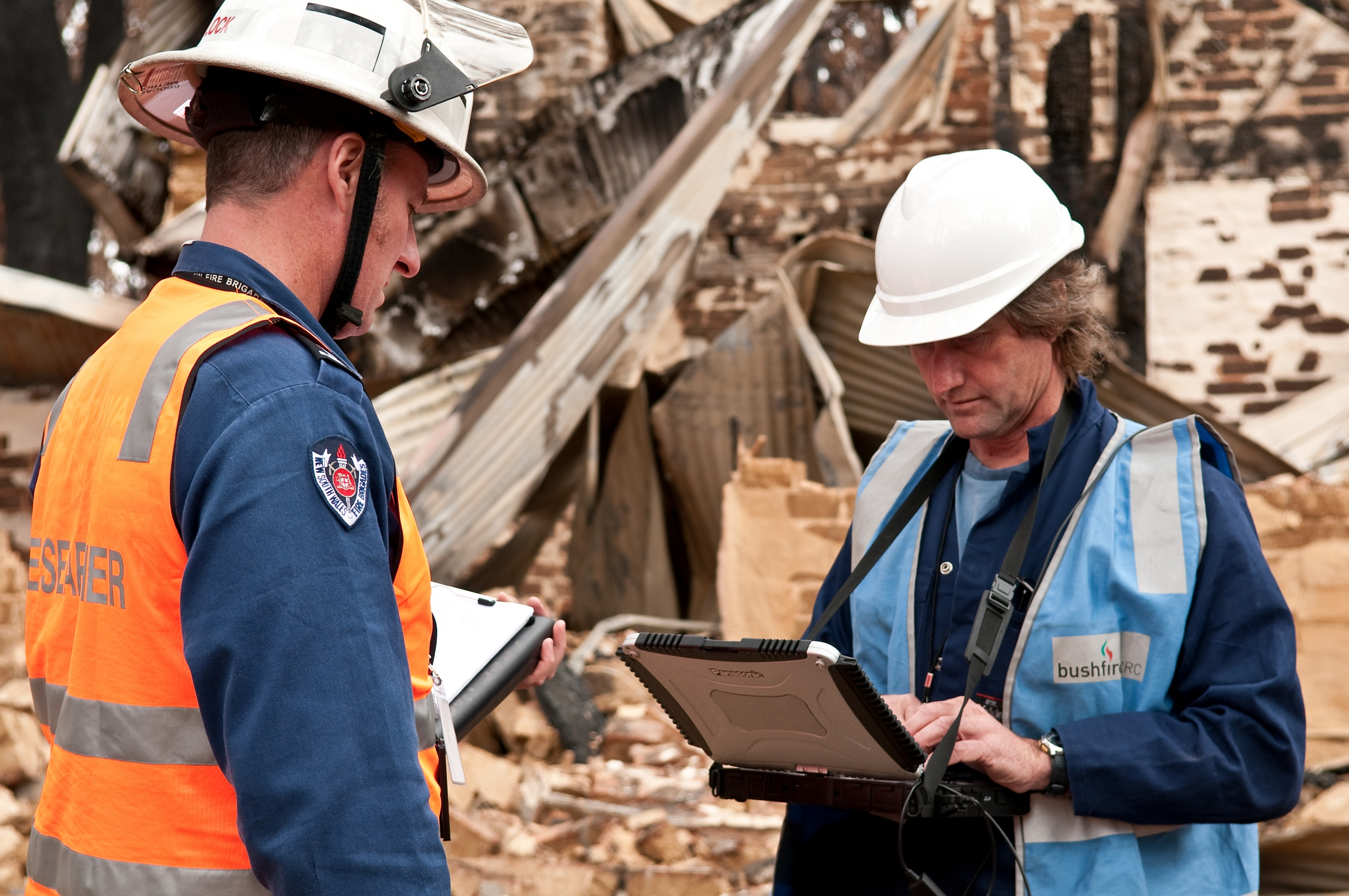 CSIRO is a participating agency in the Bushfire Cooperative Research Centre which has been looking at the key issues in the February 2009 bushfires. The CRC’s Bushfire Research Task Force includes researchers from various state fire agencies and research organisations with expertise in building analysis, human behaviour, community education, bushfire behaviour, fire weather, and fire investigation. The purpose of the research is to provide fire and land management agencies with independent analyses of the factors surrounding the Victorian fires. CSIRO researchers from the Bushfire Dynamics and Applications Group, the Bushfire Urban Design project and the Remote Sensing team, will be involved with two areas of research:strategic fire behaviour - how the fires moved across different landscapes and different vegetation and under variable weather conditionsbuilding (infrastructure) and planning issues - patterns of loss and patterns of survival of build